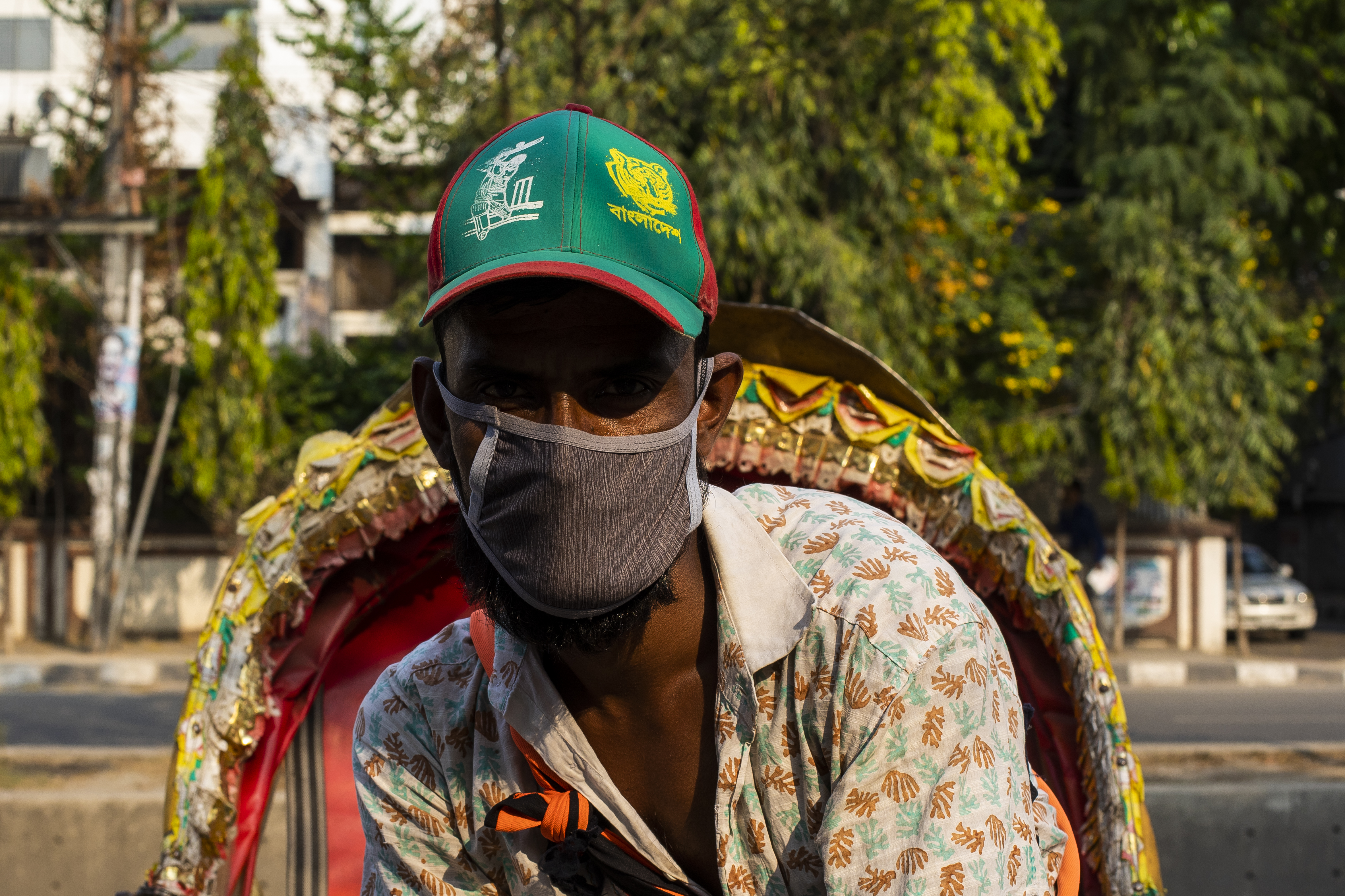 A rickshaw puller wears face mask during covid-10 pandemic in Dhaka, Bangladesh.